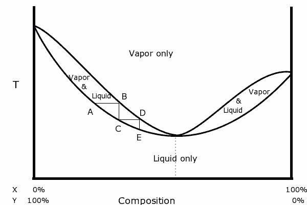 Subject: Phase diagram of a solvent-pair having a positive azeotrope Create with: GIMP on 12-April-2007 Status: Released to public domain